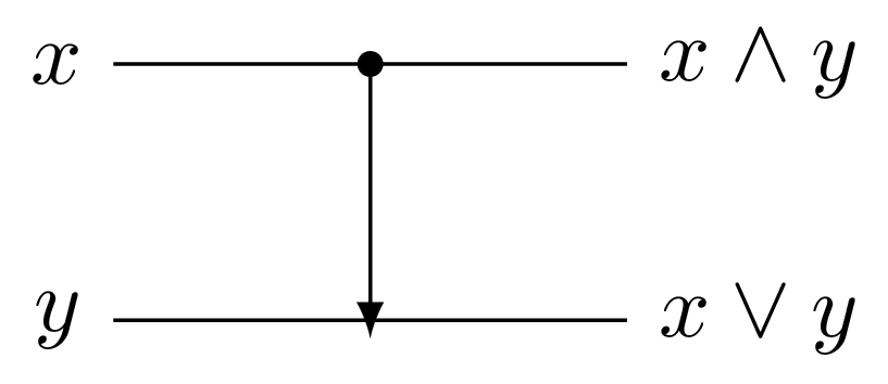 A single comparator gate, the building block of comparator circuits.